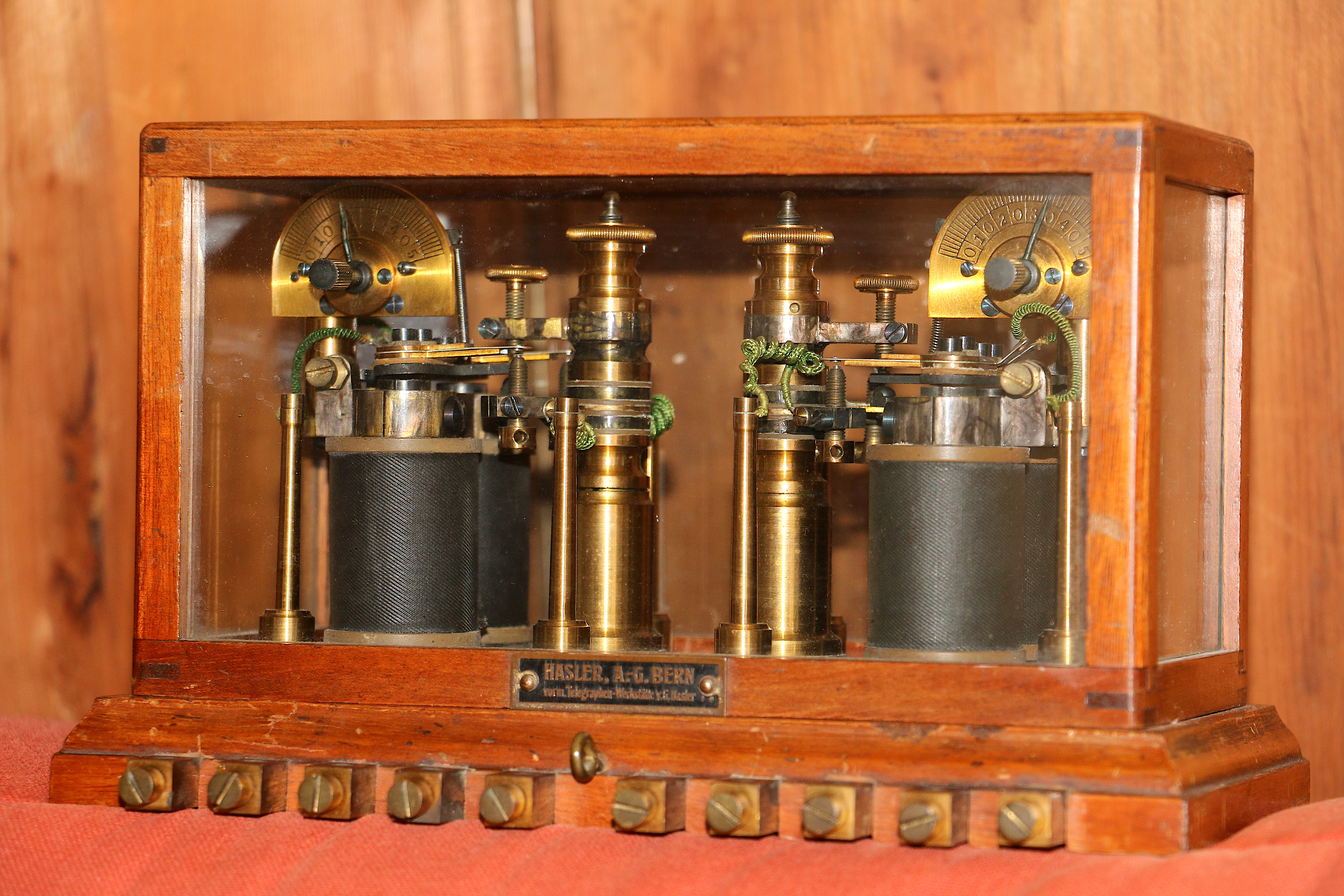 Telegraph-Repeater from Hasler AG (Bern). These telegraph-repeaters were used in the 1900 for the telegraph-network by the Gotthard railway company.